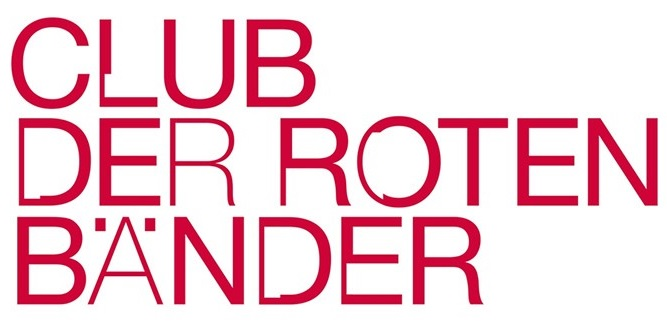 Title logo for German television series Club der roten Bänder.